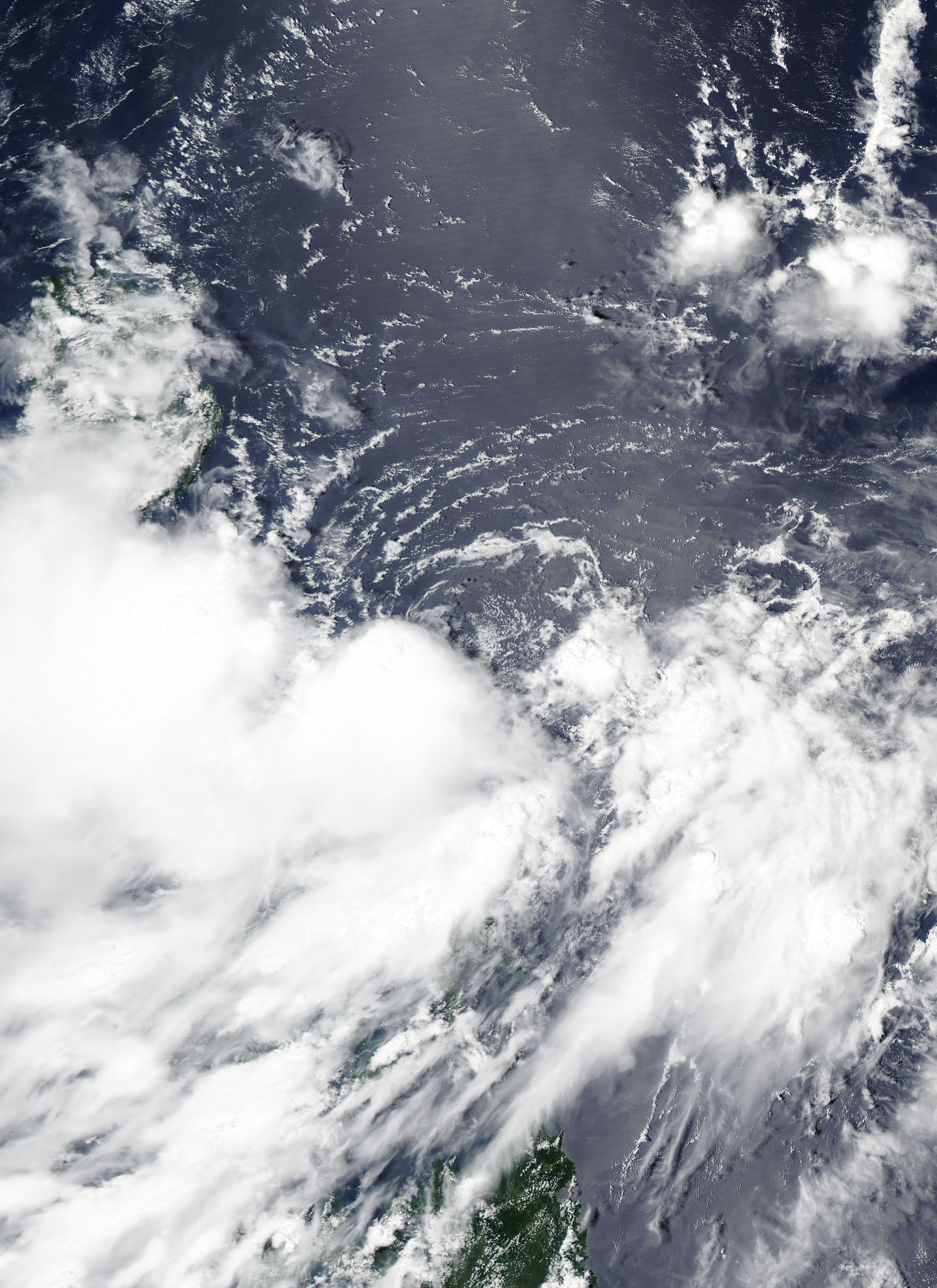 Tropical Depression Maring (97W) to the east of Bicol, Philippines on September 11, 2017